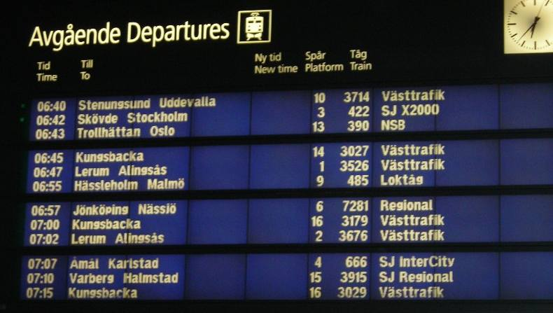 Departure list sign on Gothenburg Central Station. 12 trains in 35 minutes. There are arrivals also. The traffic will increase soon.